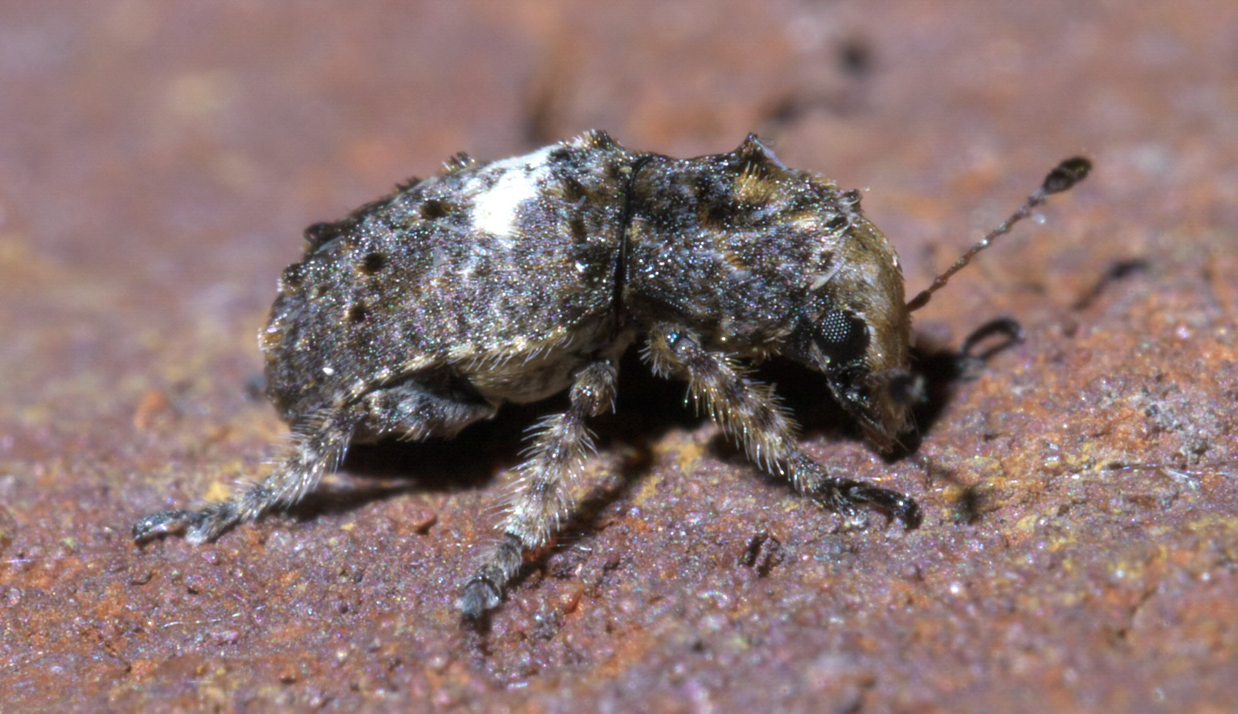 Toxonotus cornutus, Family: Fungus Weevils, ID Confidence: 94